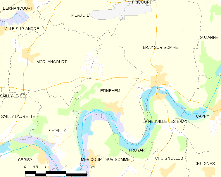 Map of French municipality Étinehem